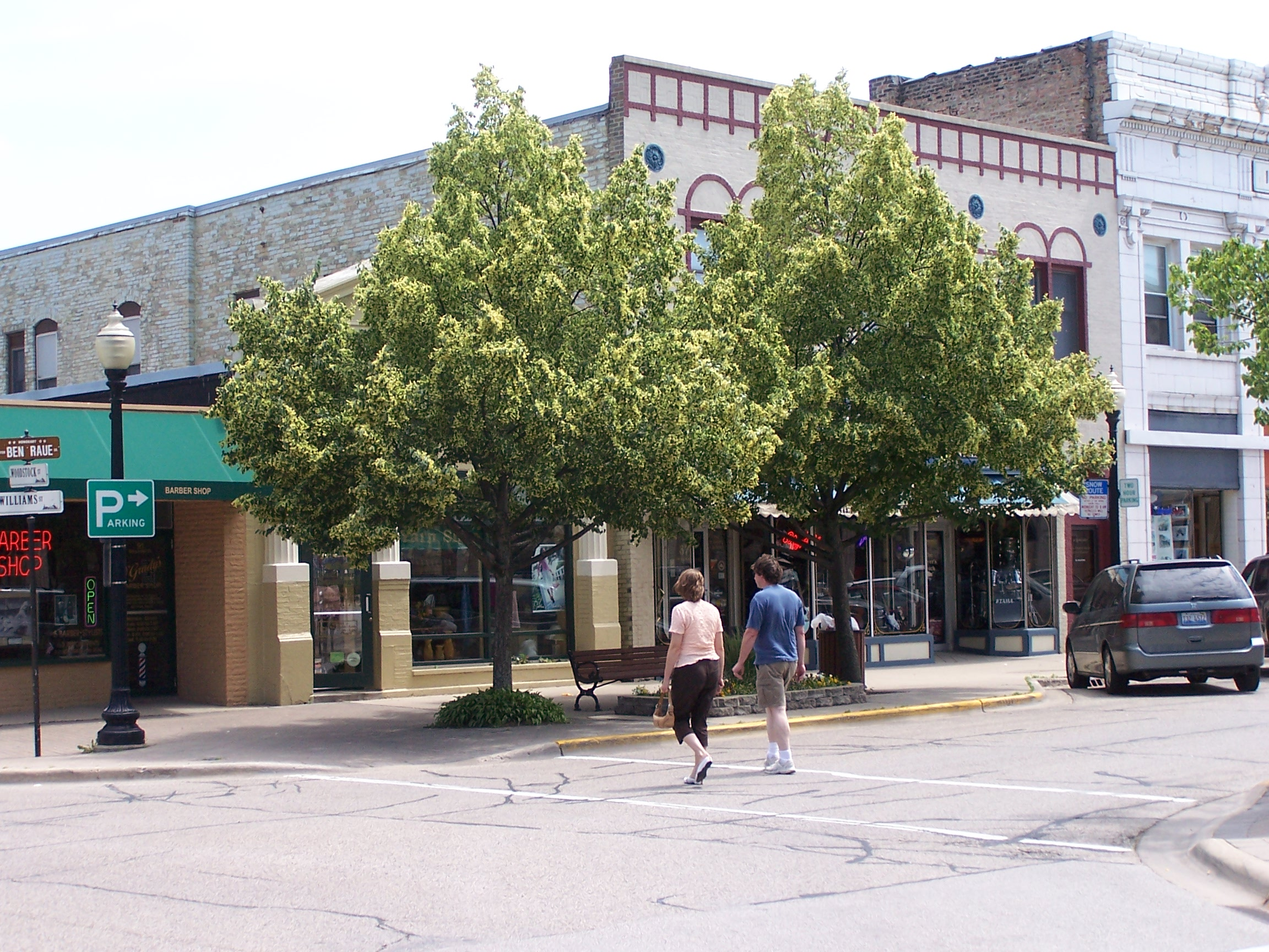 Woodstock and Williams streets. Downtown business district of Crystal Lake, Illinois.